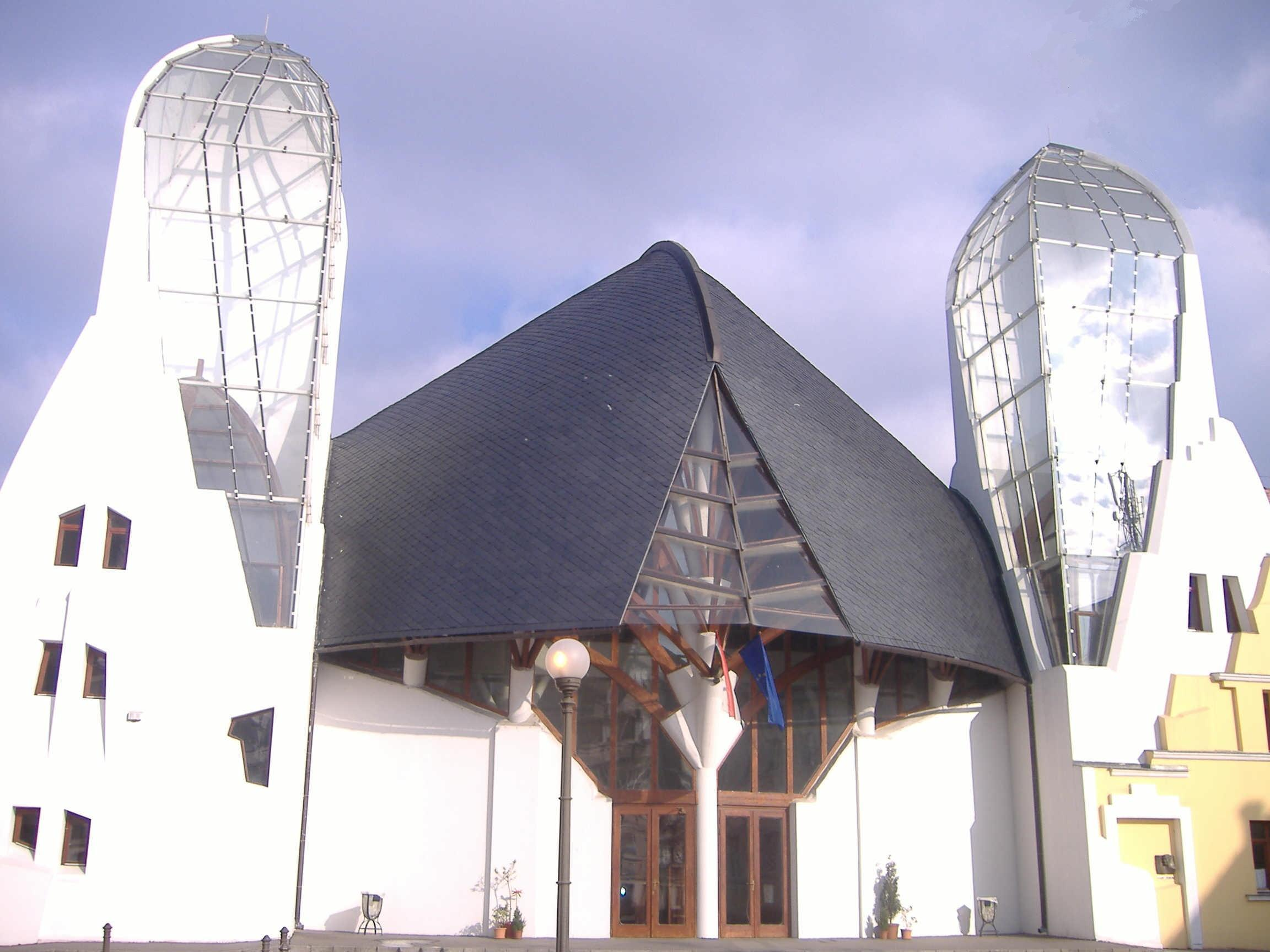 The 'Onion House', theatre of Makó, Hungary.